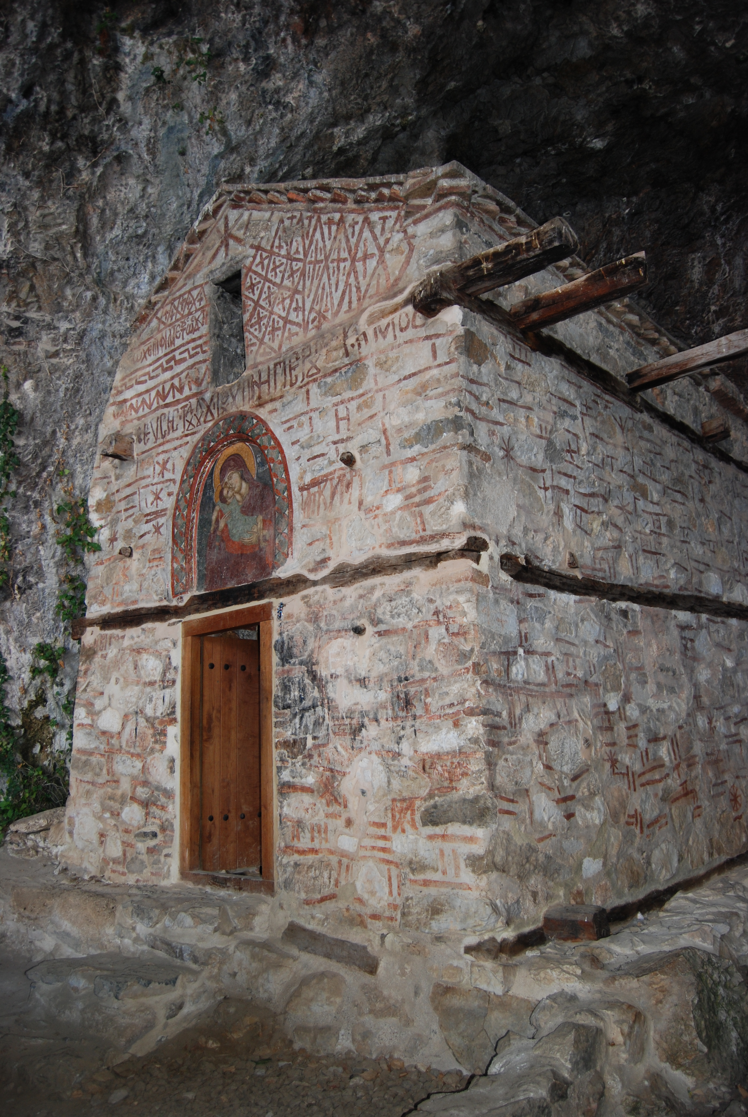 Church in the rocks in Psarades/Nivici, Greece